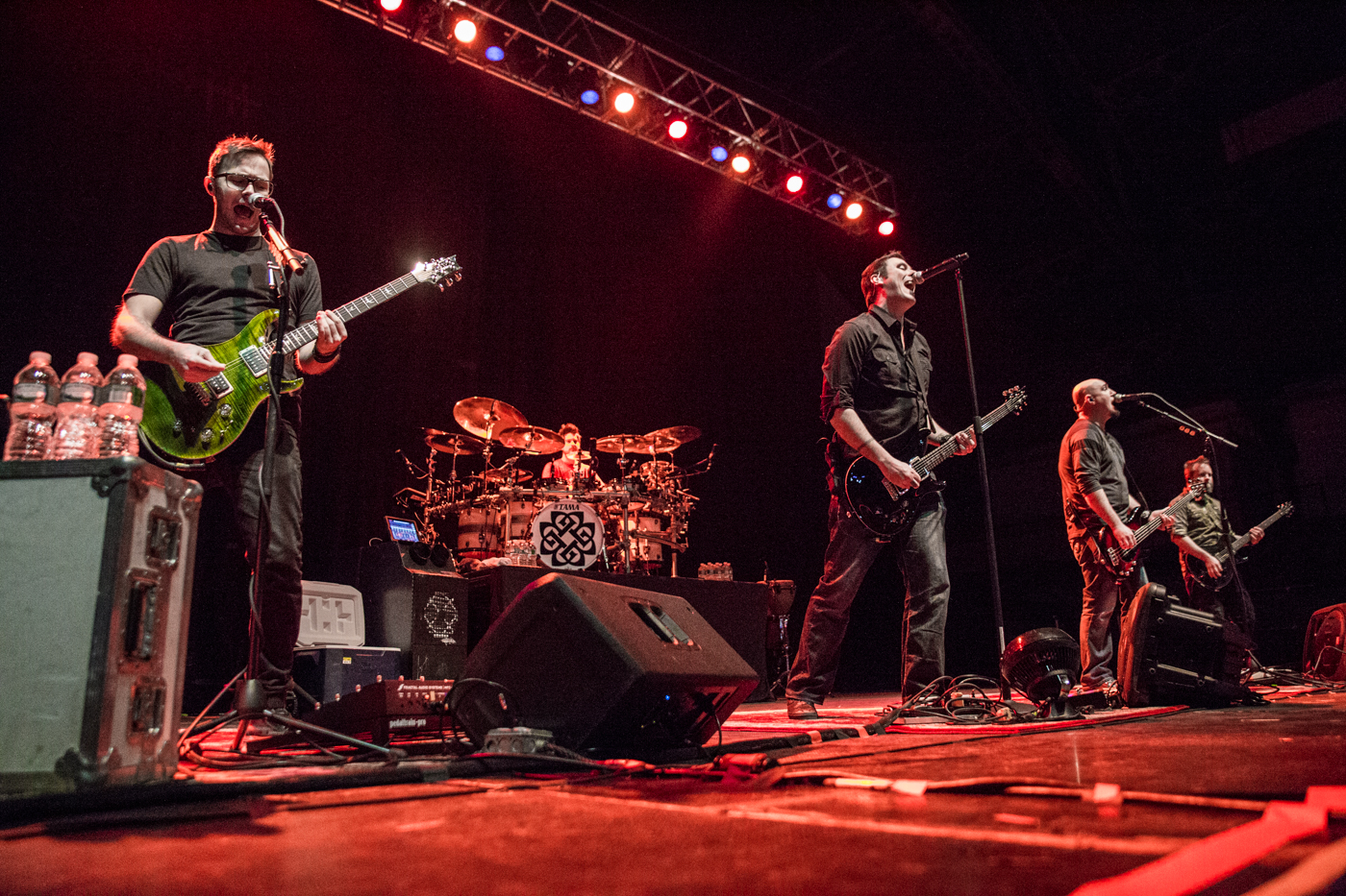 Breaking Benjamin playing live at the Main Street Armory in Rochester, New York on February 14, 2015. From left to right, Keith Wallen (guitarist), Shaun Foist (drummer), Benjamin Burnley (vocalist, guitarist), Aaron Bruch (bassist), and Jasen Rauch (guitarist).